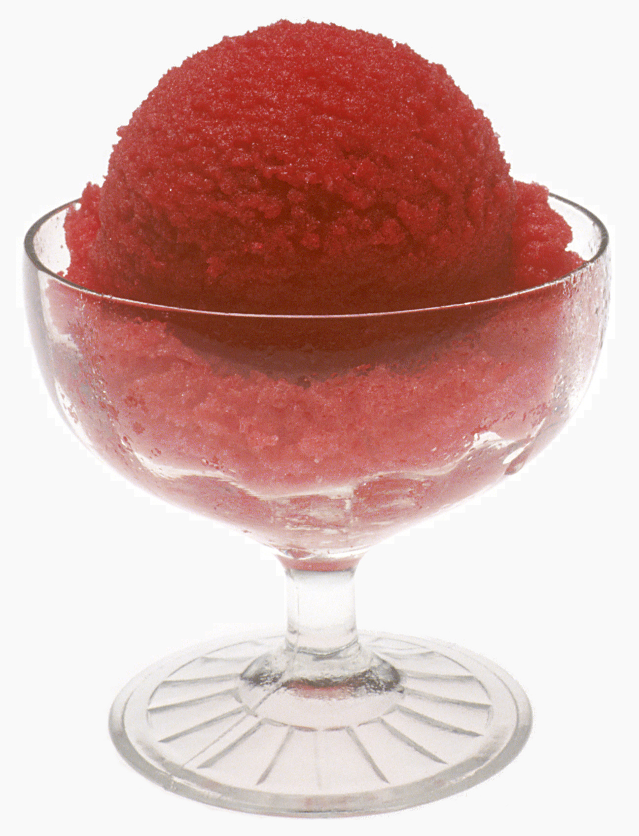 a glass dessert cup of raspberry sherbet